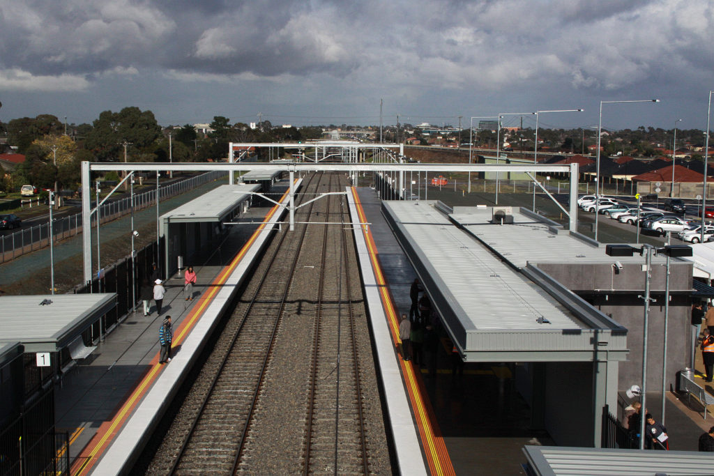 Looking over Coolaroo railway station, Melbourne from the overhead footbridge towards the city